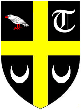 Arms of Rashleigh of Menabilly, Cornwall: Sable, a cross or between in the first quarter: a Cornish chough, argent beaked and legged gules; in the second quarter: a text "T"; in the third and fourth quarters: a crescent all of the third (Burke's Genealogical and Heraldic History of the Commoners of Great Britain, vol.1)